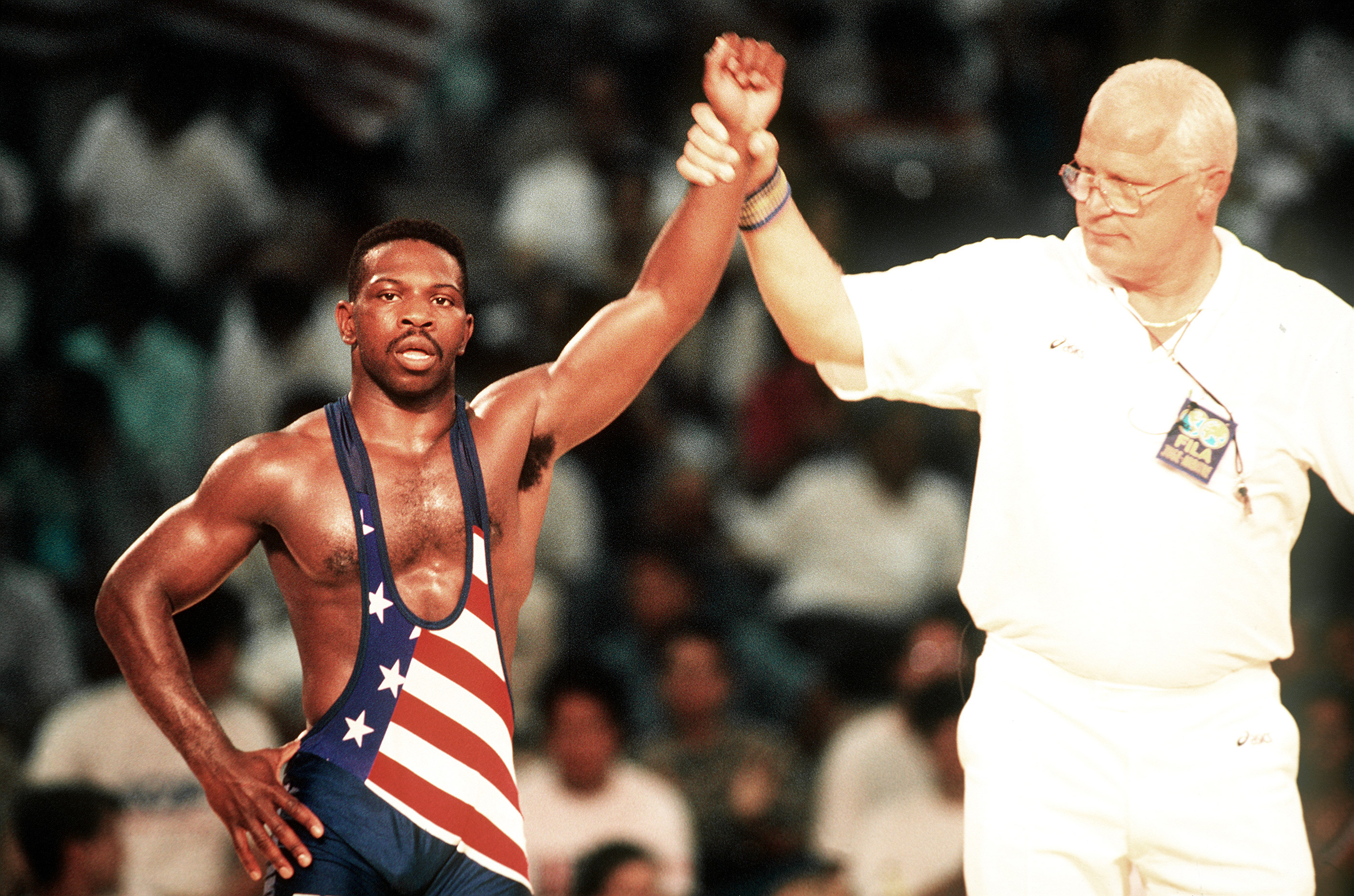 SPC Rodney Smith, 25th Olympiad Bronze Medalist in Greco-Roman wrestling, 149.5 pound class, is being declared the victor in match one against Pedro Villuela of Spain who he defeated on points at the Inefc Venue.